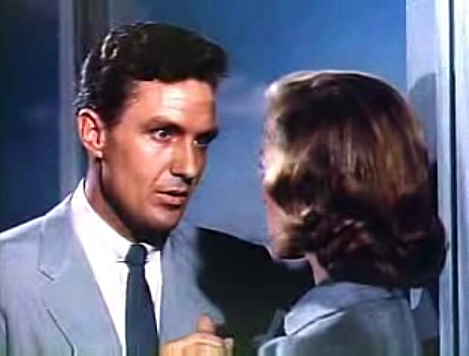 Screenshot of Robert Stack and Lauren Bacall from the trailer for the film Written on the Wind